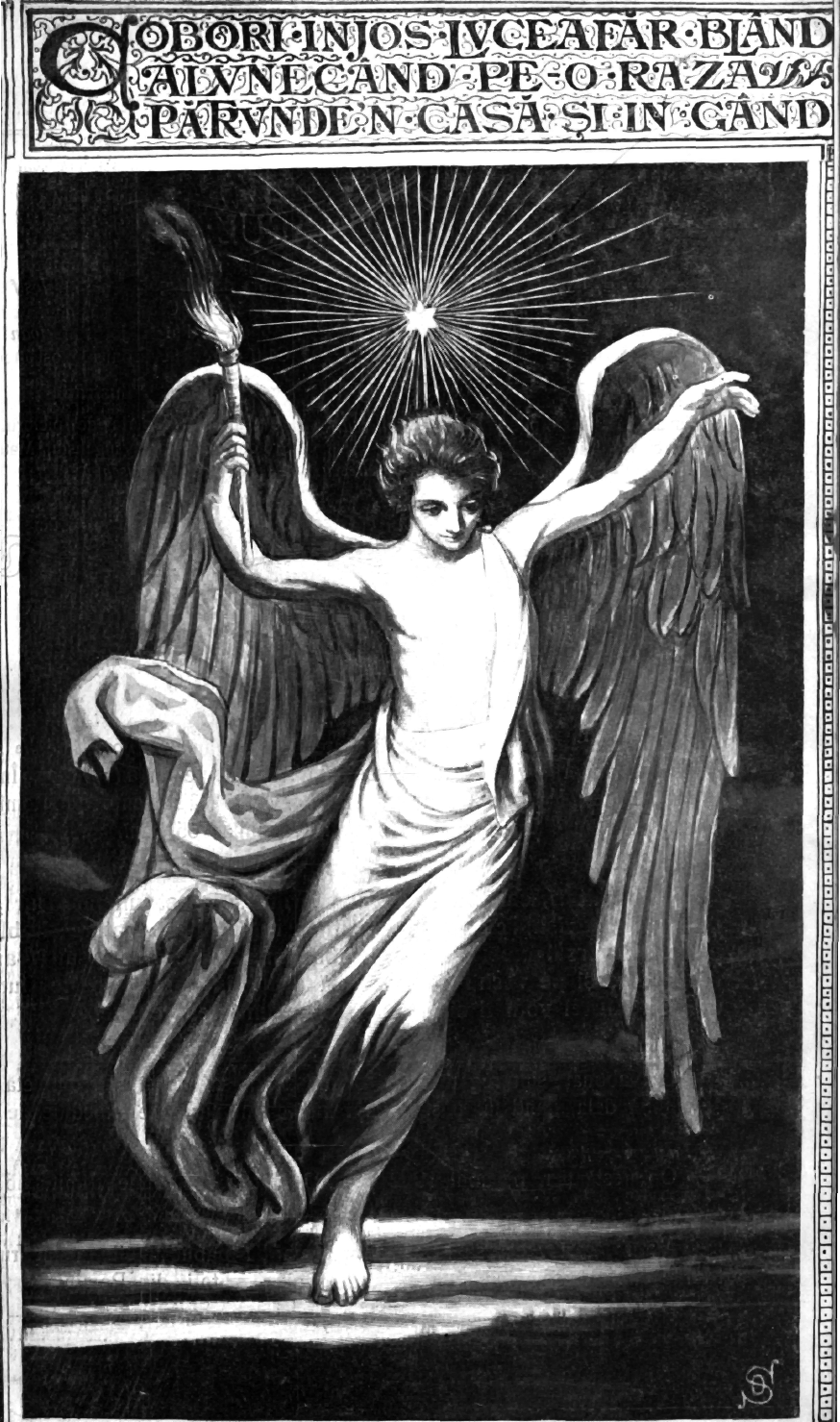 Print on the cover of Luceafărul, the Romanian magazine of Budapest, illustrating the eponymous poem by Mihai Eminescu (its 13th stanza is quoted in the calligraphy at the top).